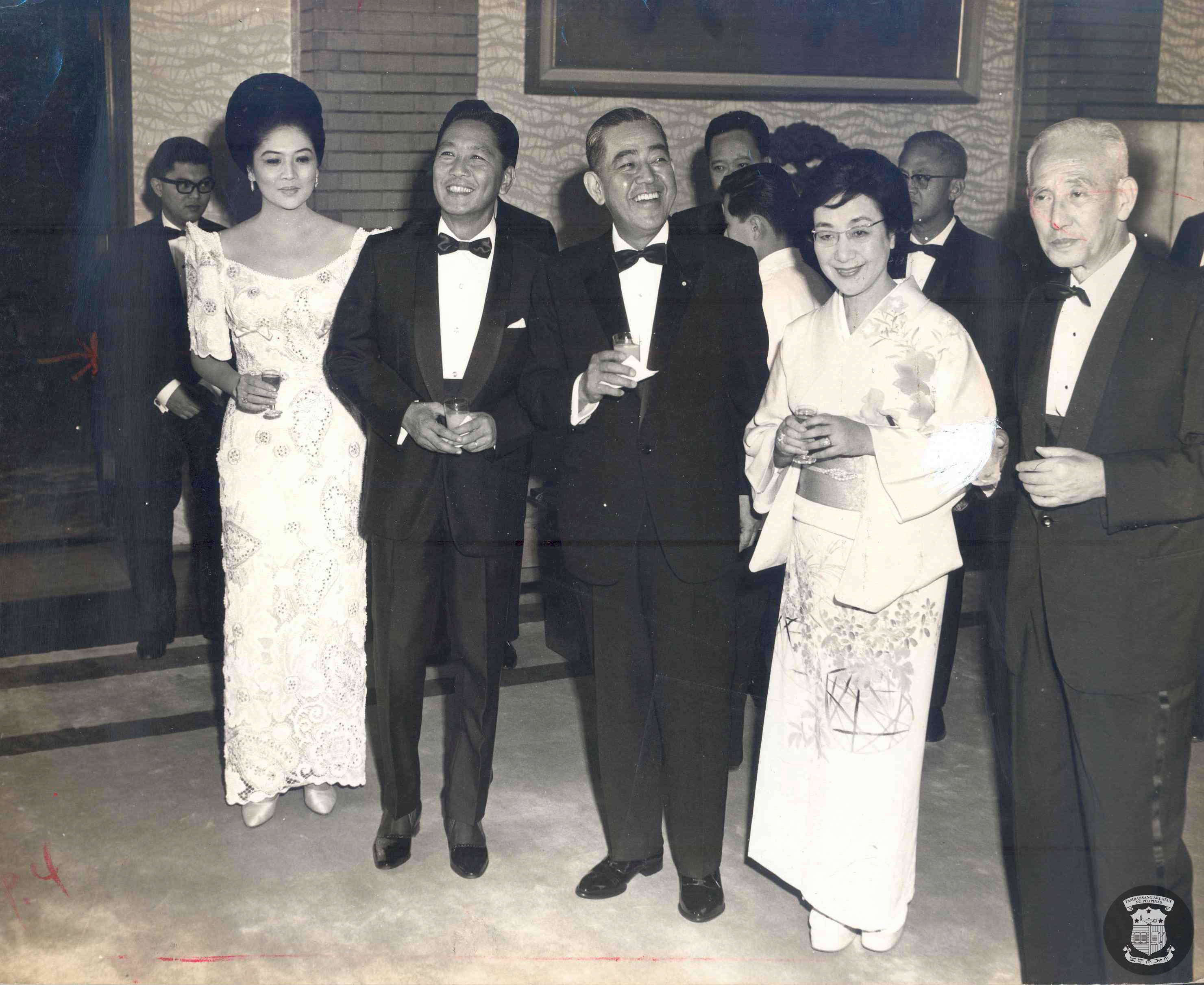 Ferdinand and Imelda Marcos with Japanese Prime Minister Eisaku Satō and his wife. Date: 30 September 1966